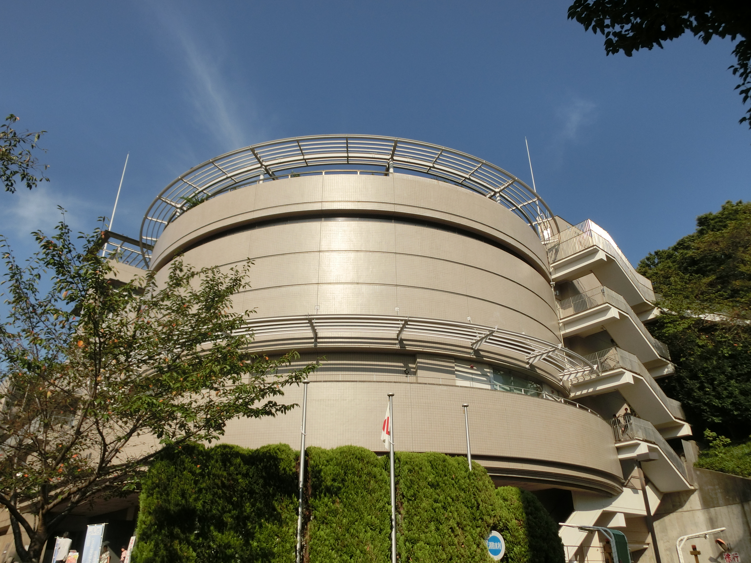 Ikegami Hall (Ota, Tokyo)